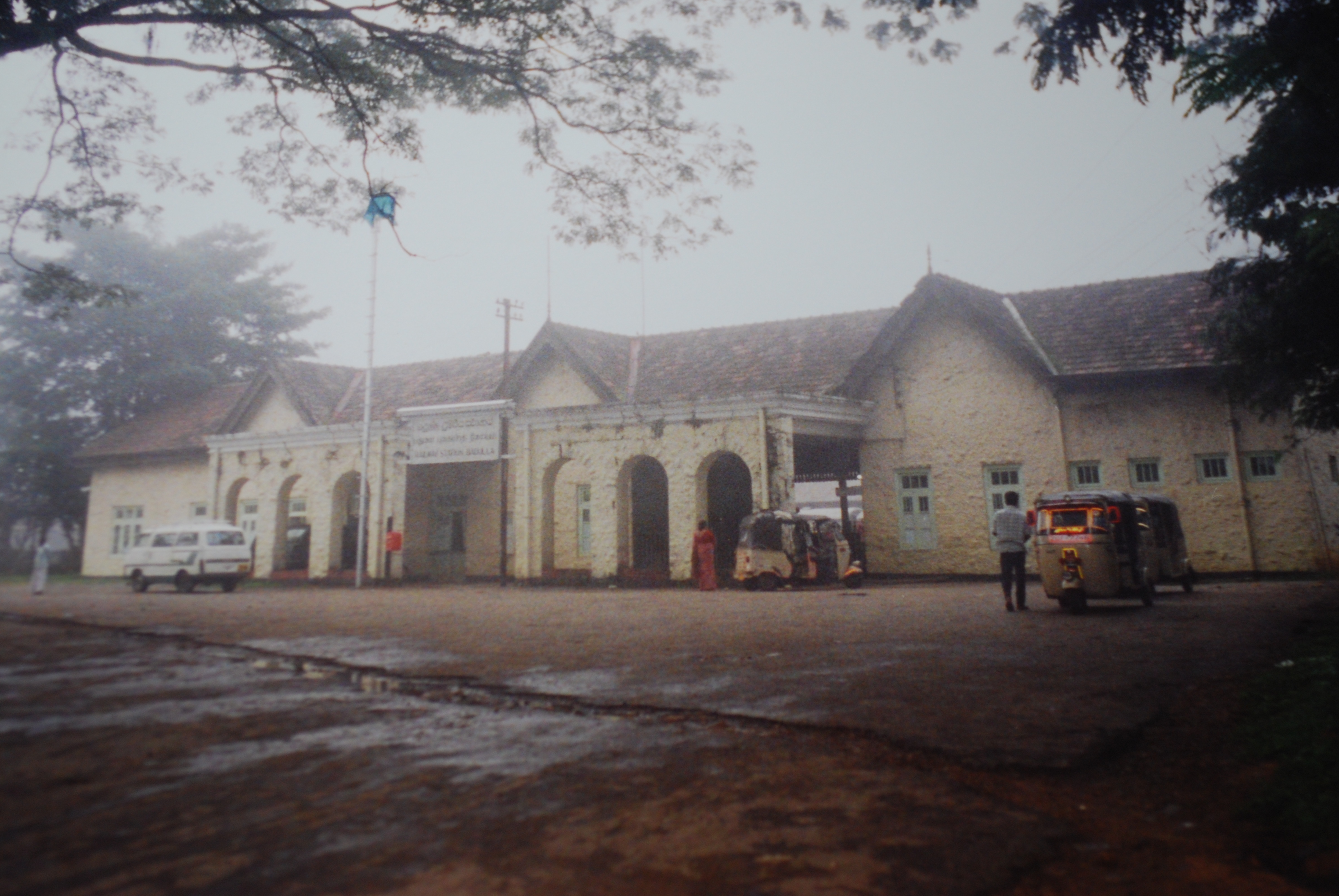 Badulla sta.,Sri Lanka Railway,Uva Province,Sri Lanka